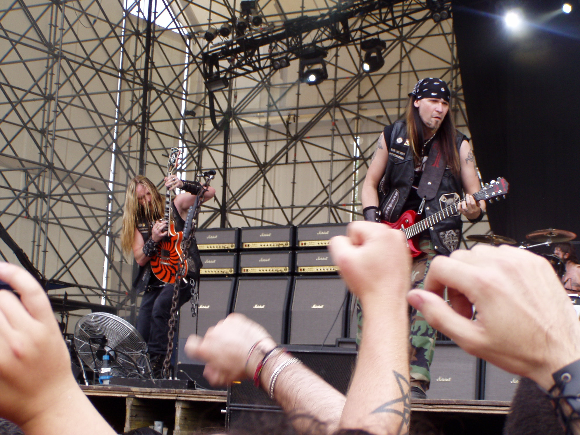 I Black Label Society al Gods of Metal